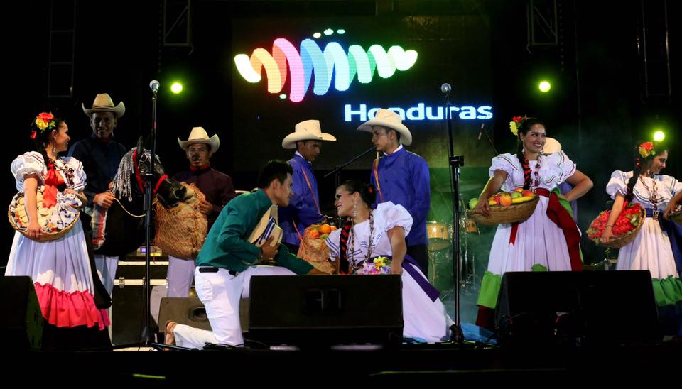 Ballet Folklórico de Honduras Oro Lenca in Telethon under Marca Pais Honduras. Dancers are wearing the costume from Las Chilcas, Choluteca, Honduras.